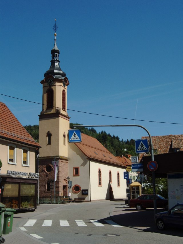 Church in Heiligkreuzsteinach)